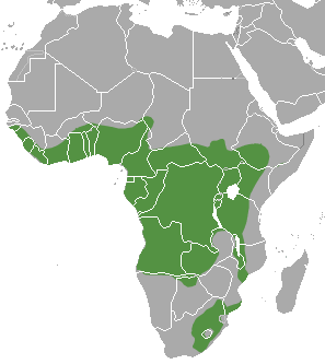 Spotted-necked Otter (Hydrictis maculicollis) range